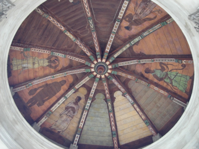 I took this picture in Sunol, California ike9898 19:58, 14 January 2006 (UTC)